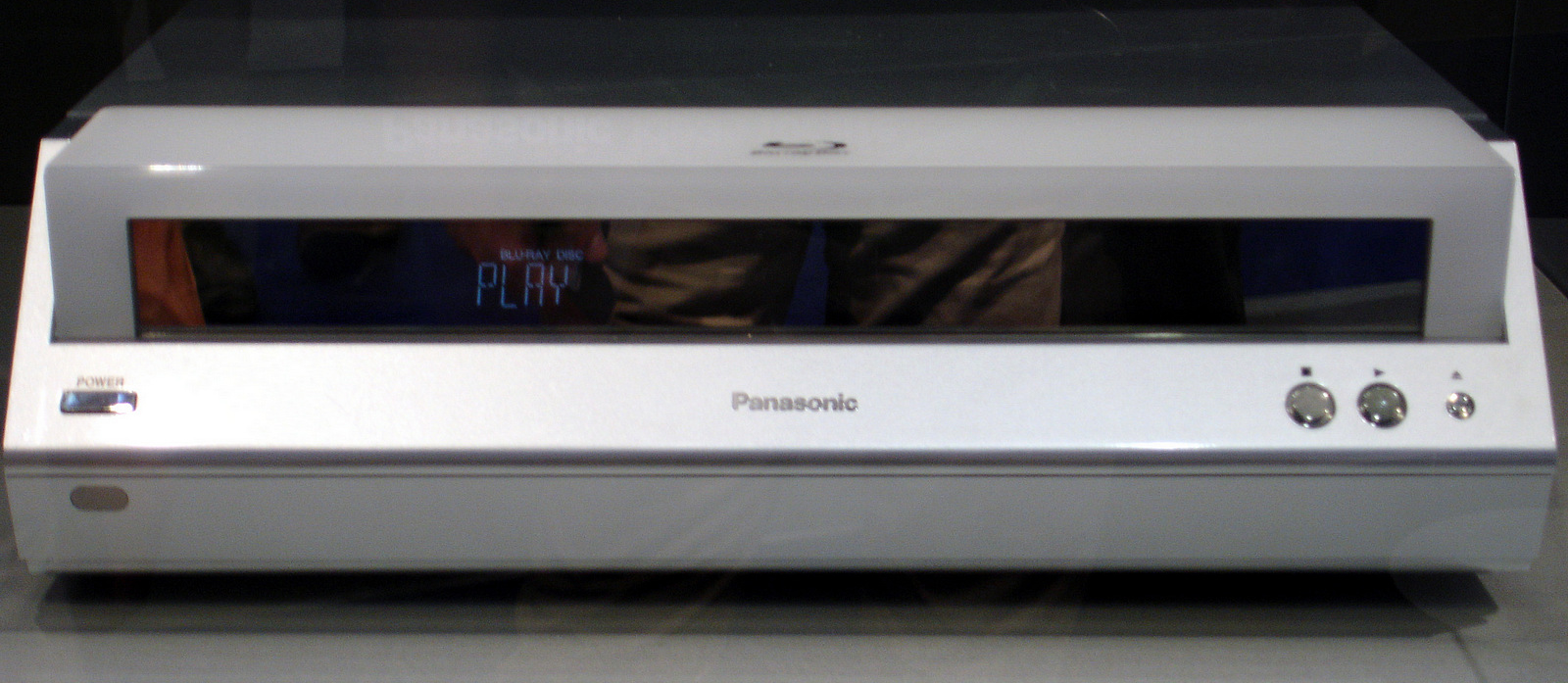 Blu-ray Disc player BDP100 (Panasonic). Taken on the consumer electronics fair IFA2005 in Berlin.